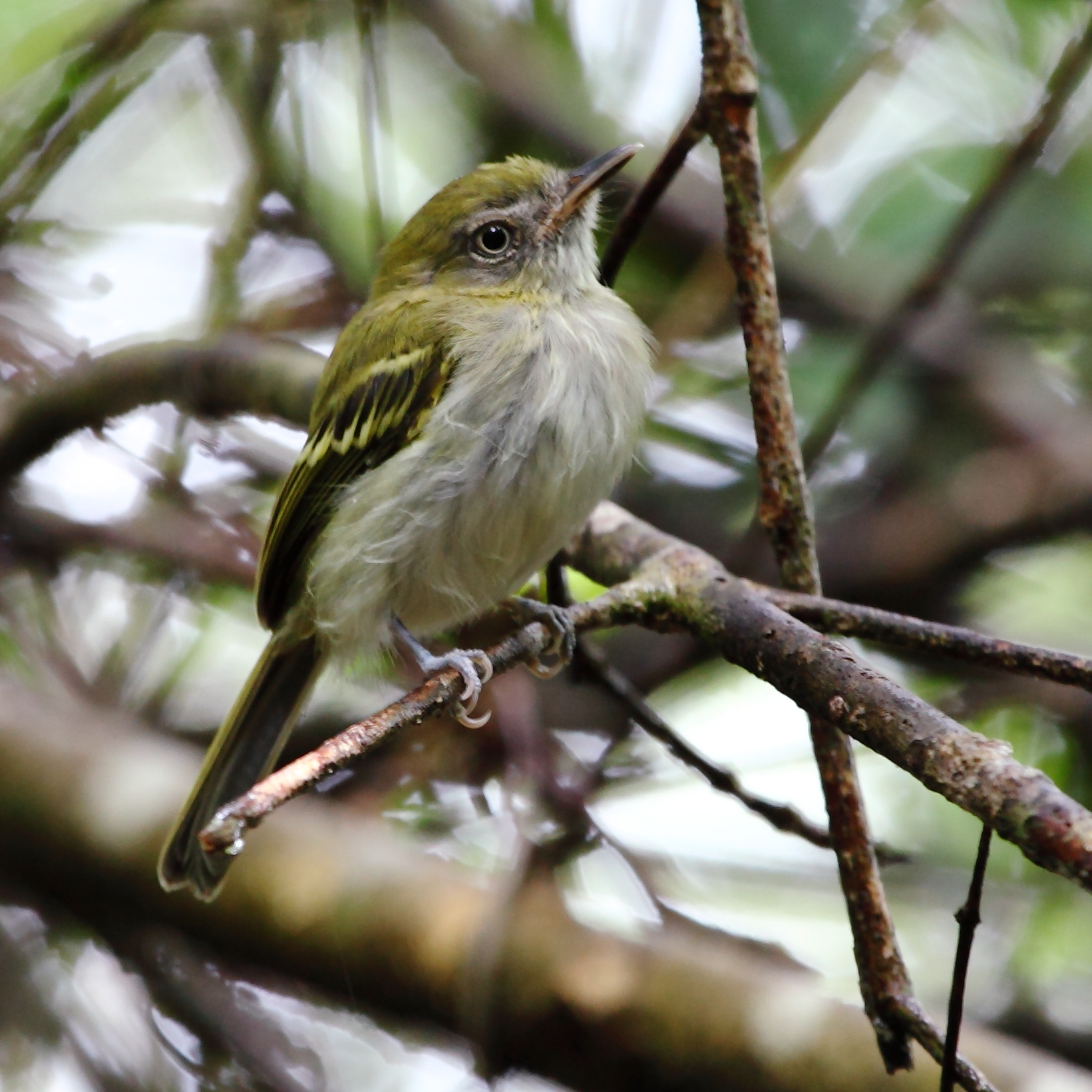 White-bellied Tody-Tyrant at Baia Formosa - RN - Brazil